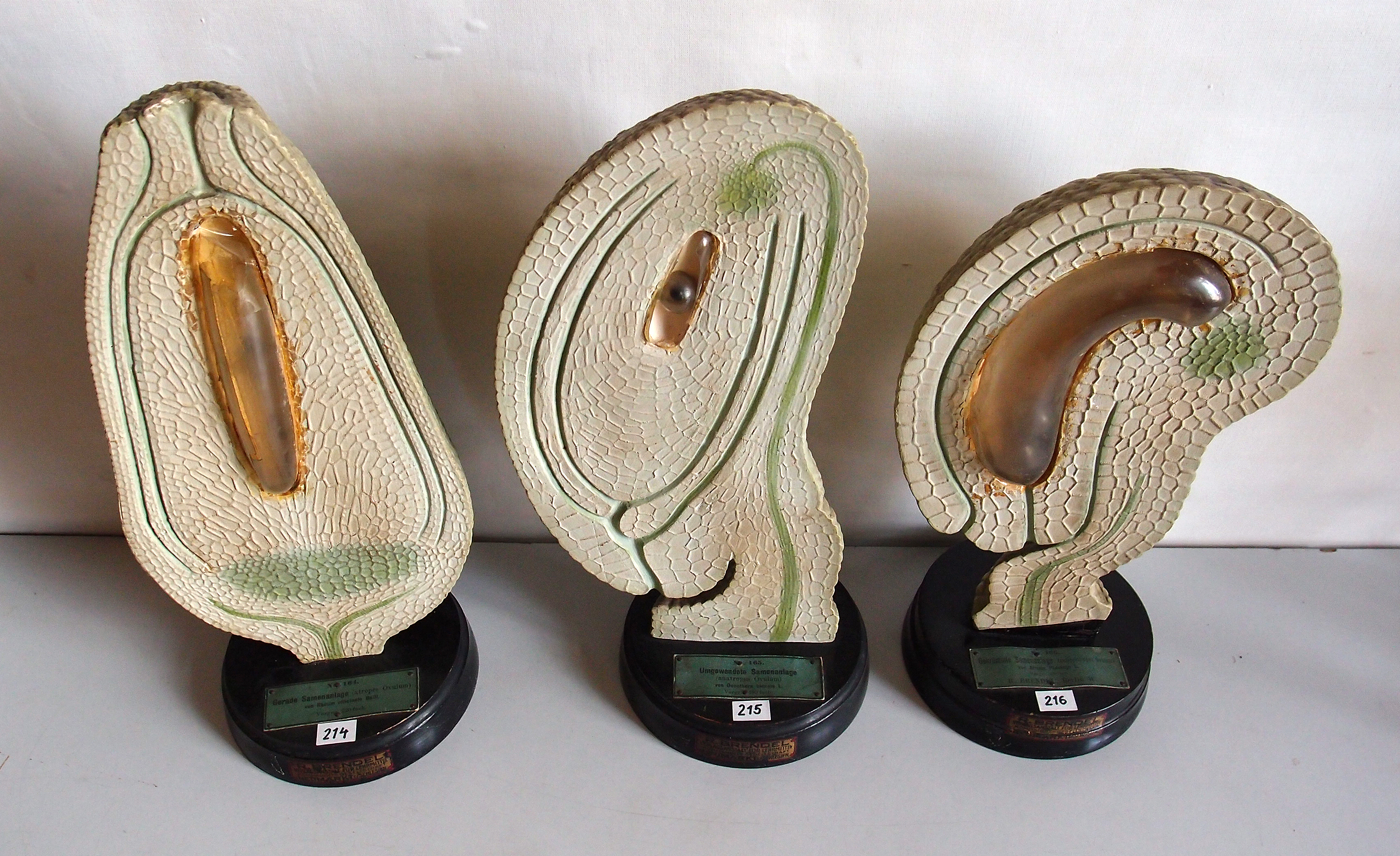 Model from the collection of the Botanical Museum in Greifswald, Germany. . see also for more information on the models